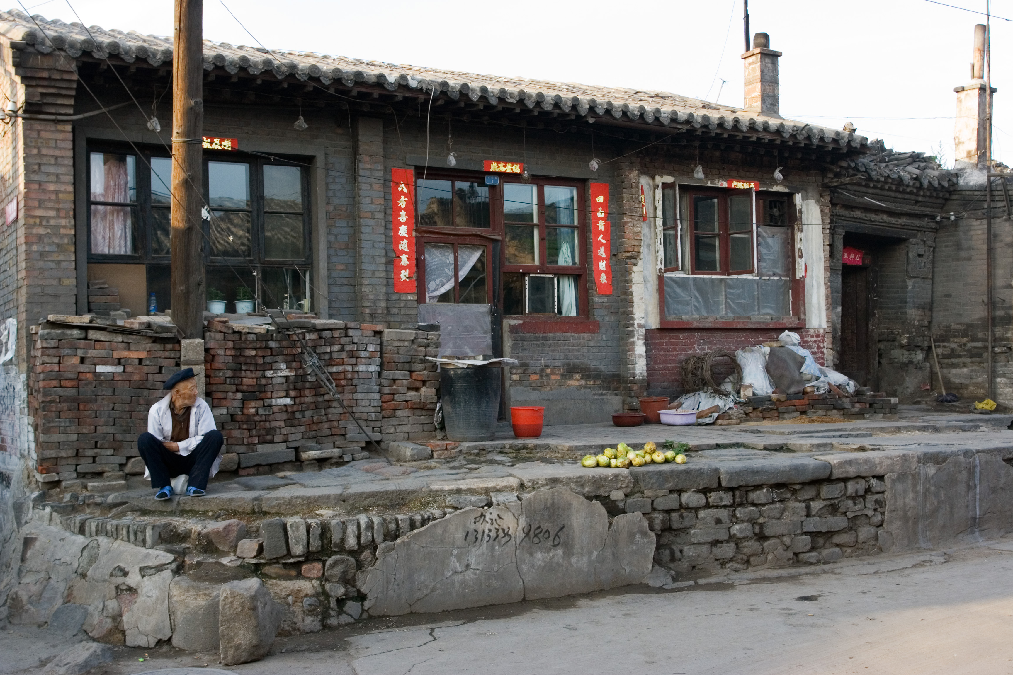 A view of old Datong, Shanxi, China